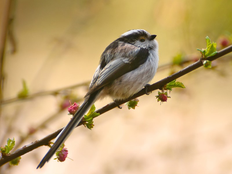 A Long-tailed Tit in Eindhoven, the Netherlands.